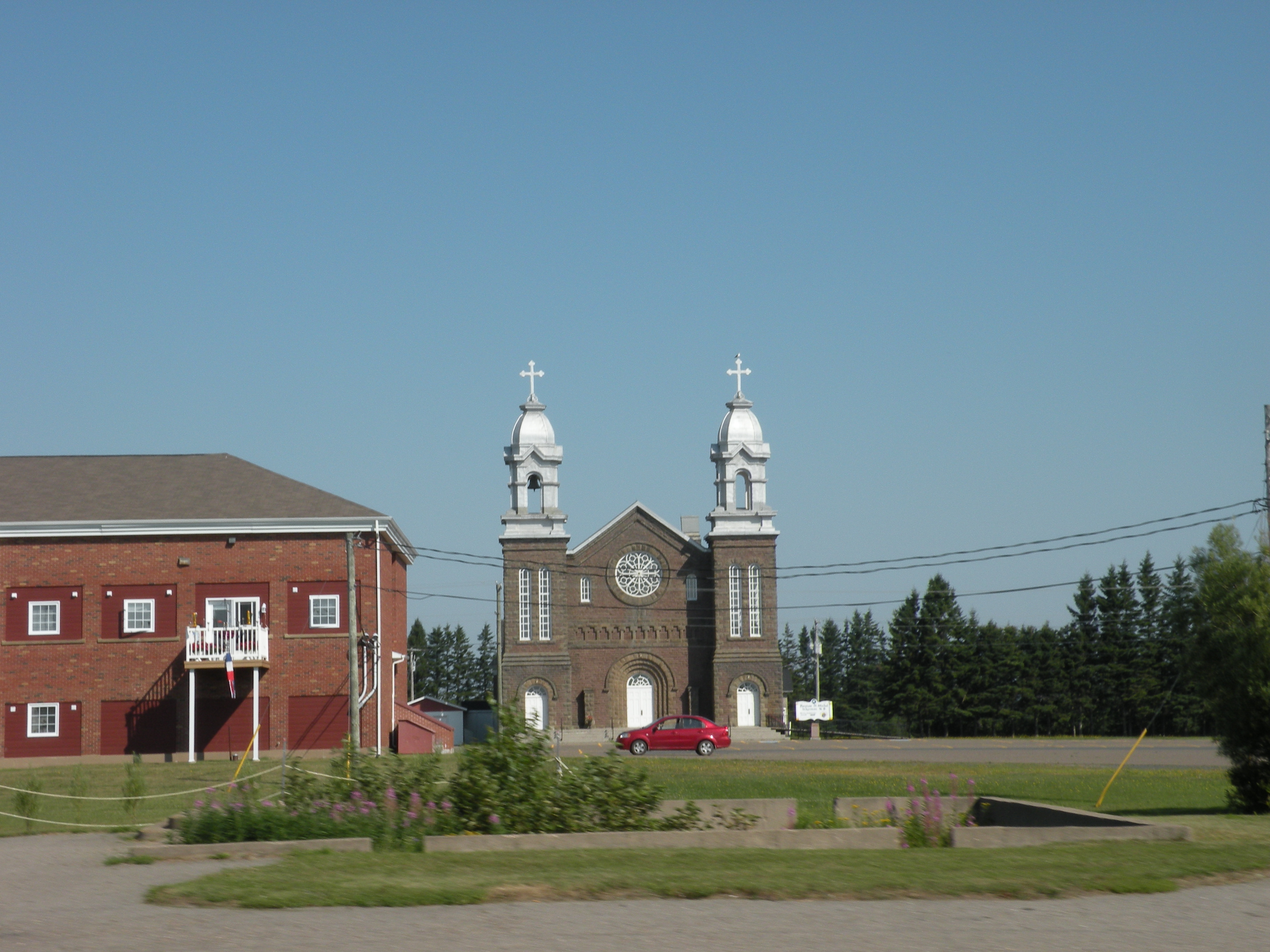 Saint-Michel-Archange roman catholic church in Inkerman, New Brunswick, Canada.